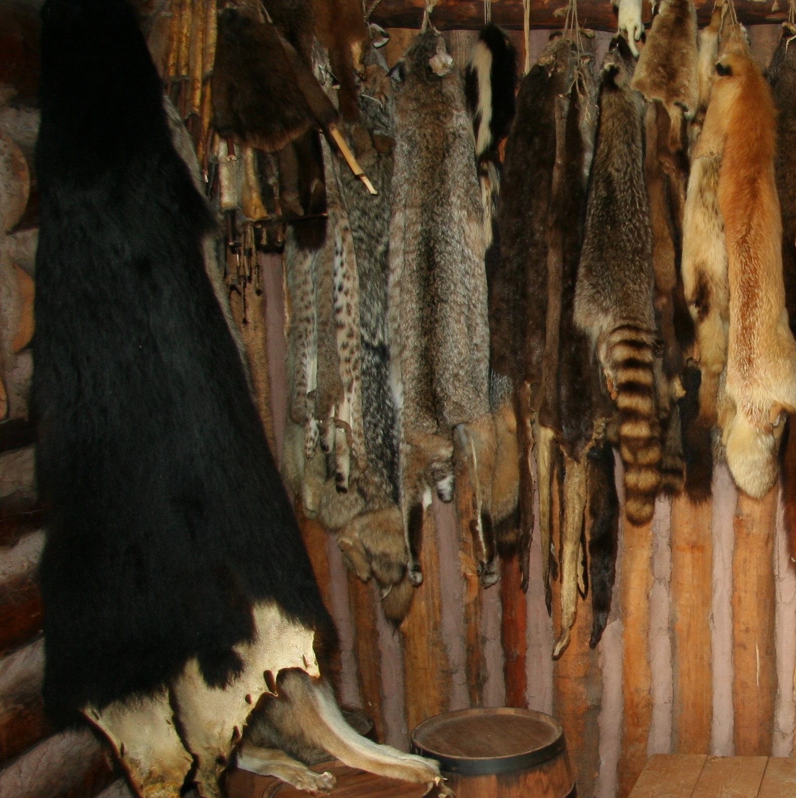 A display of furs at the North West Company Post, a site operated by the Minnesota Historical Society near Pine City, Minnesota